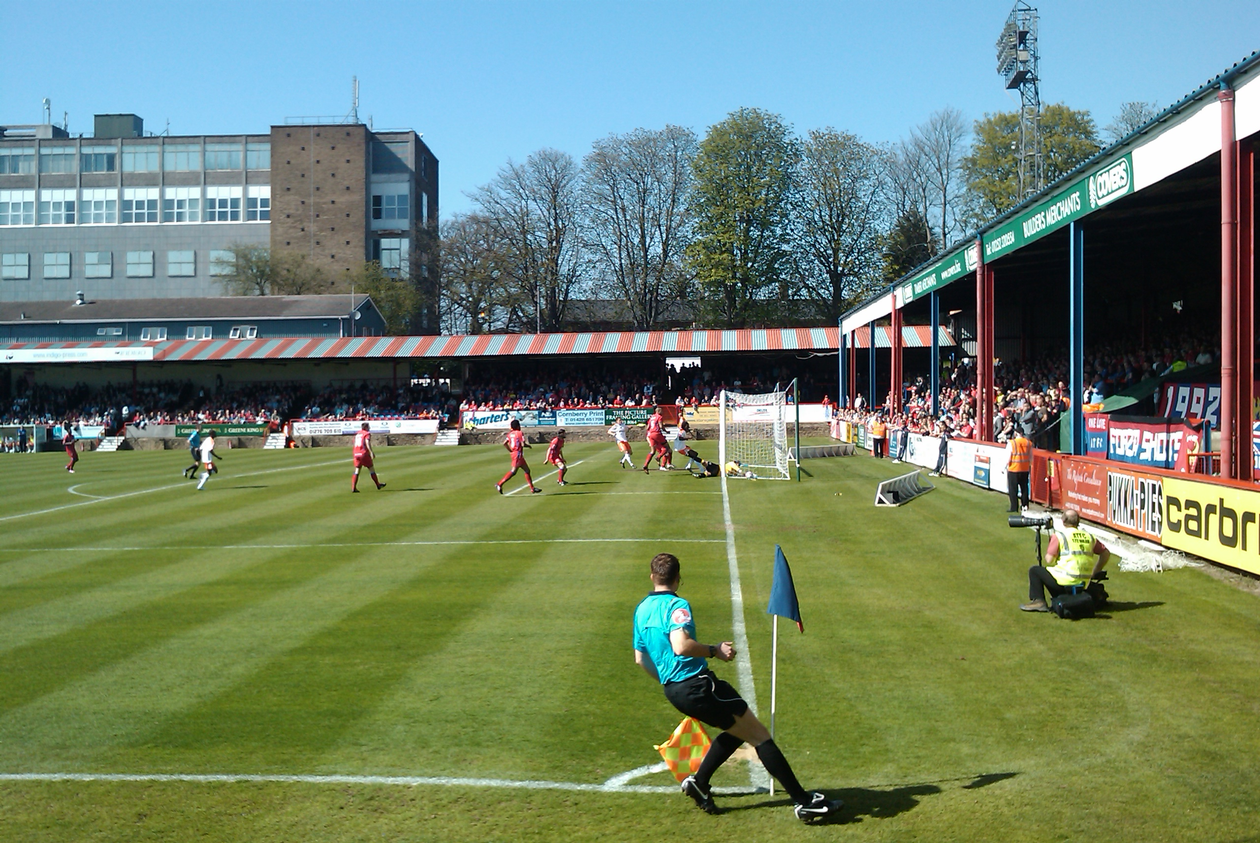 Aldershot Town v Crewe Alexandra, 17 April 2010. View in/from the away fans enclosure at the Recreation Ground. Crewe score the opening goal in the first minute of a 1:1 draw.